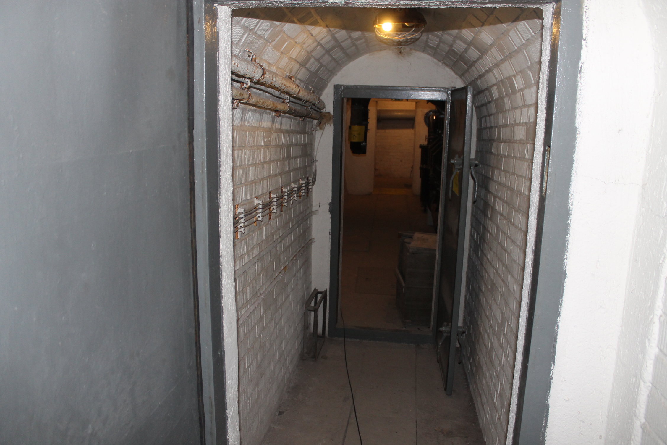 An atomic fallout shelter, Brno, South Moravia Region